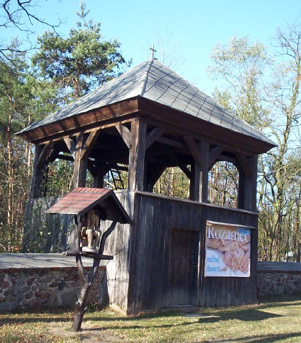 Church belfry in Jeruzal, eastern part of Łódź Voivodship, Poland.